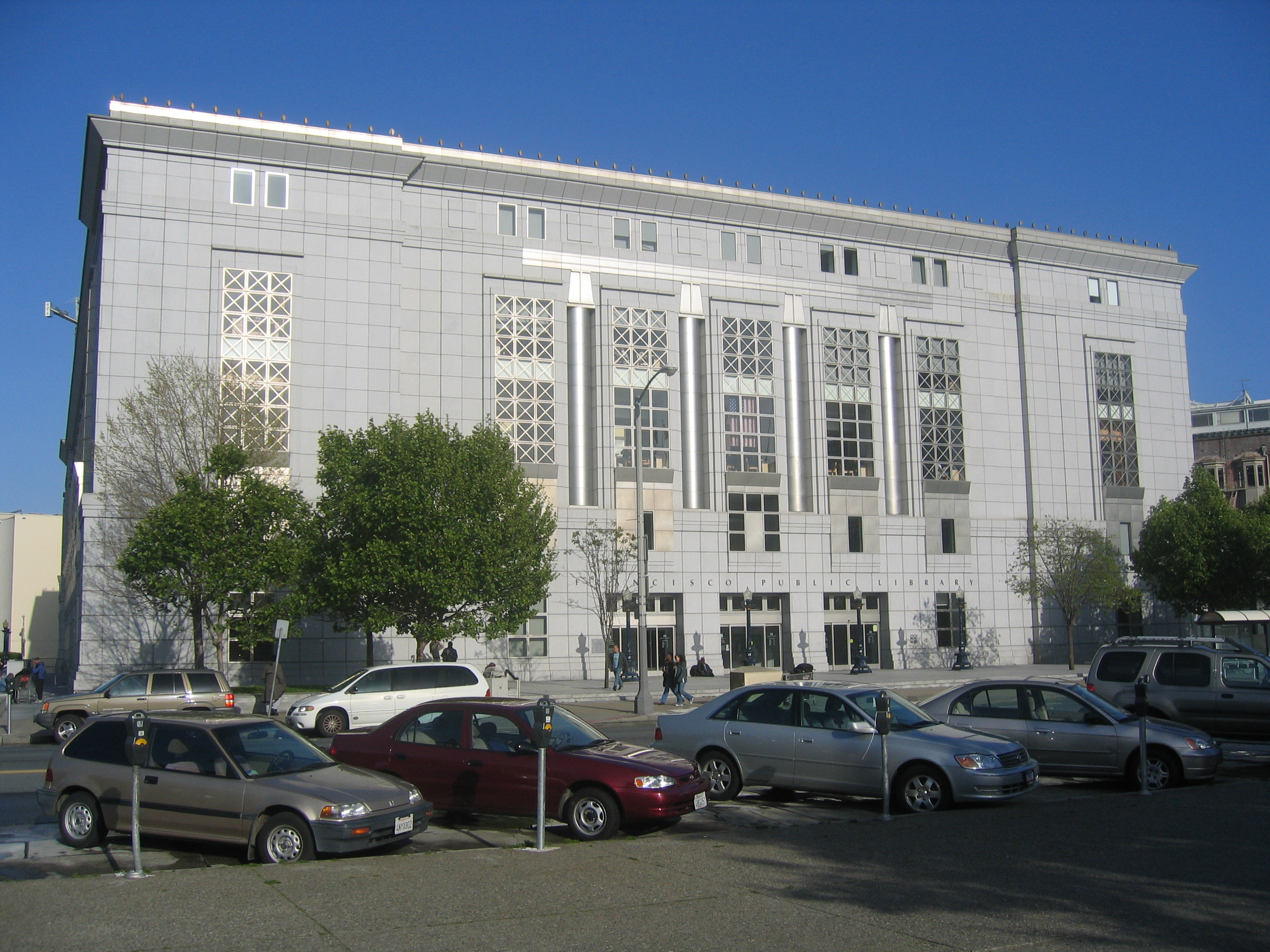 Facade of the Main branch of the San Francisco Public Library in San Francisco's Civic Center. Location: San Francisco, CA.